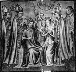 Coronation of Louis VIII and Blanche of Castile